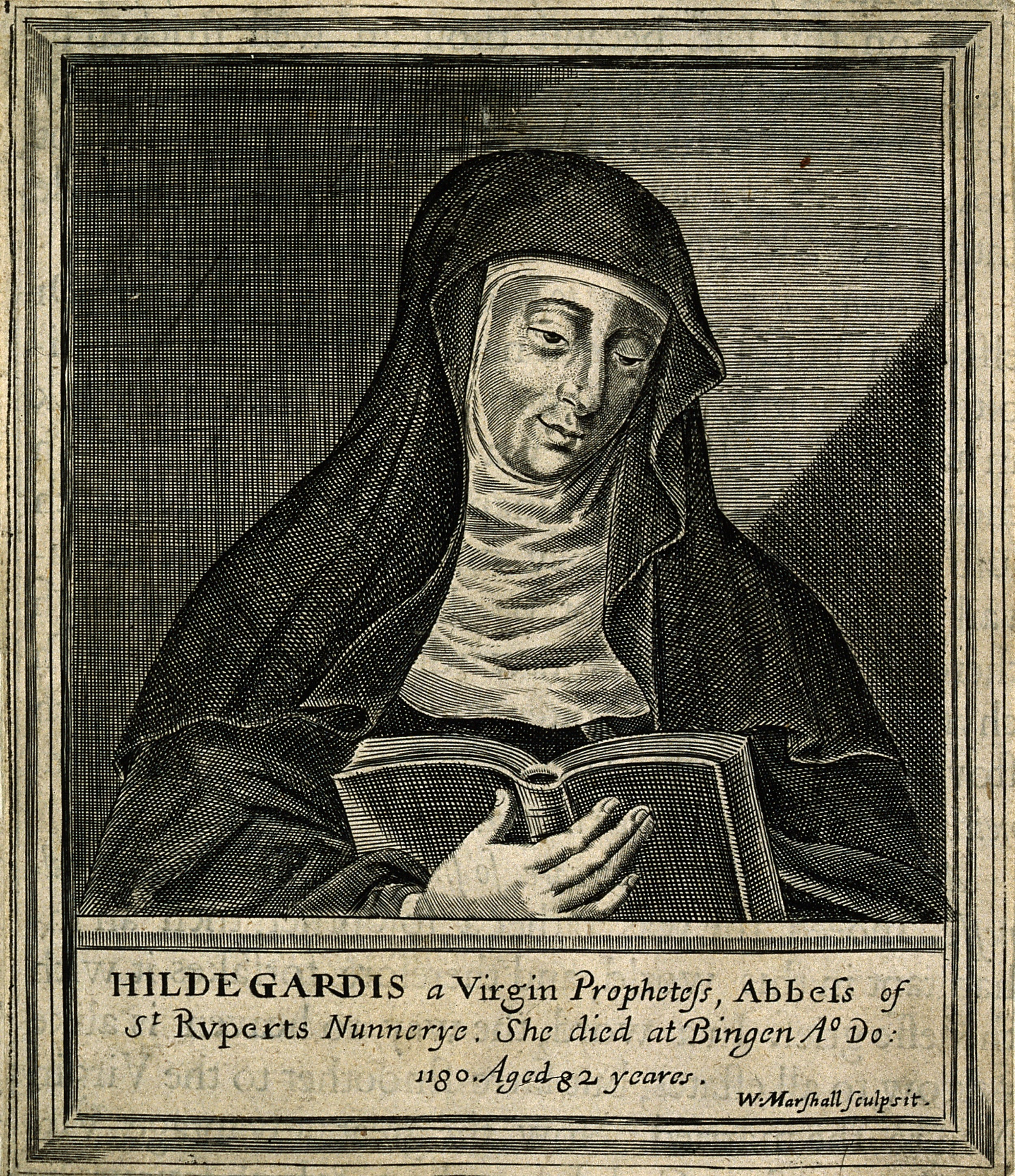 Hildegard von Bingen. Line engraving by W. Marshall. Iconographic Collections Keywords: portrait prints; Hildegard von Bingen; engravings; W. Marshall